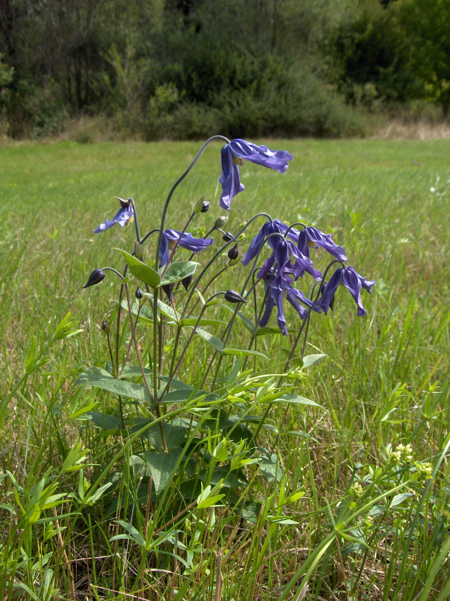 Clematis integrifolia on a hay meadow of the river Ipoly (Hungary)near Ipolydamásd.